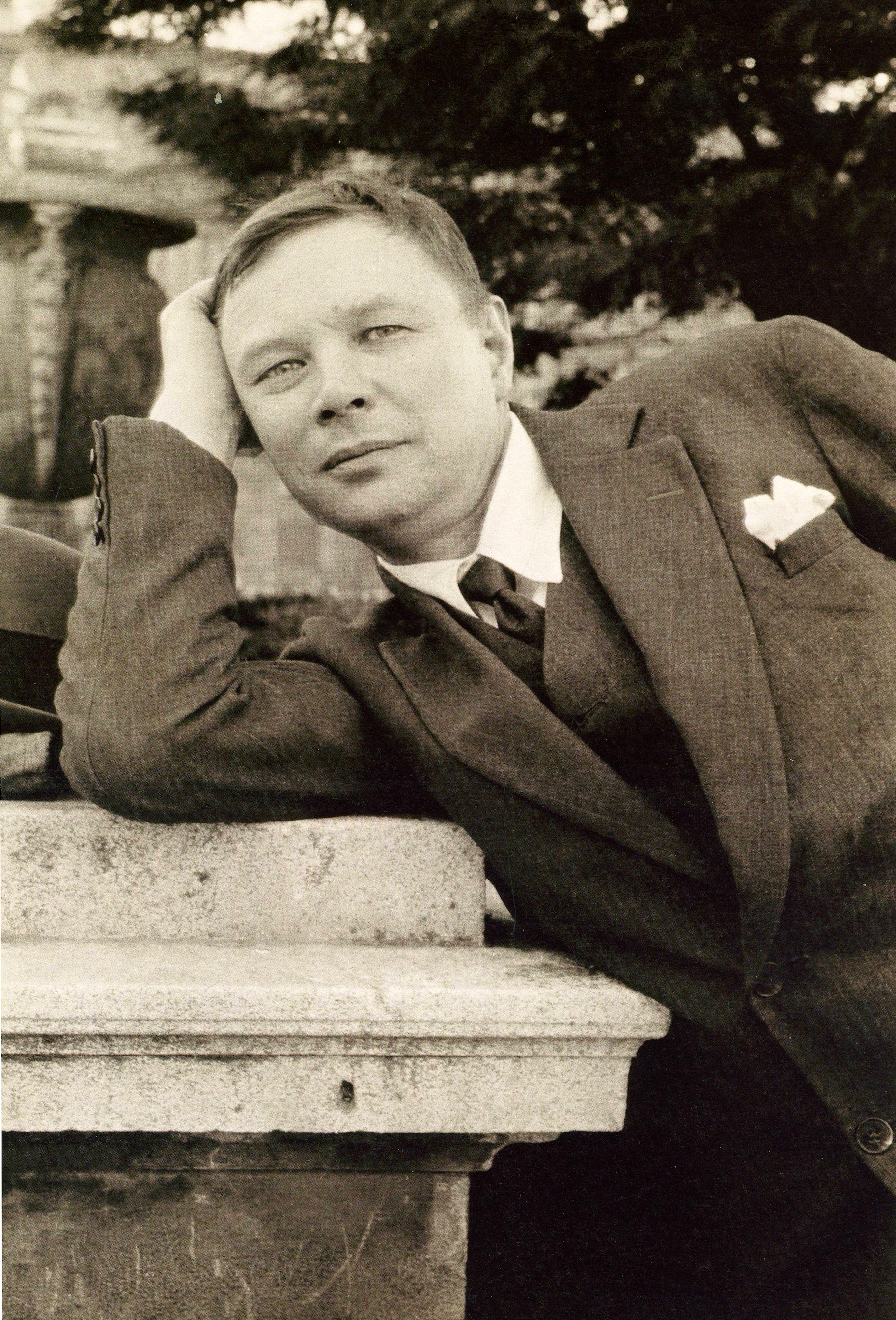 Mikhail Fyodorovich Larionov, circa 1916-1917